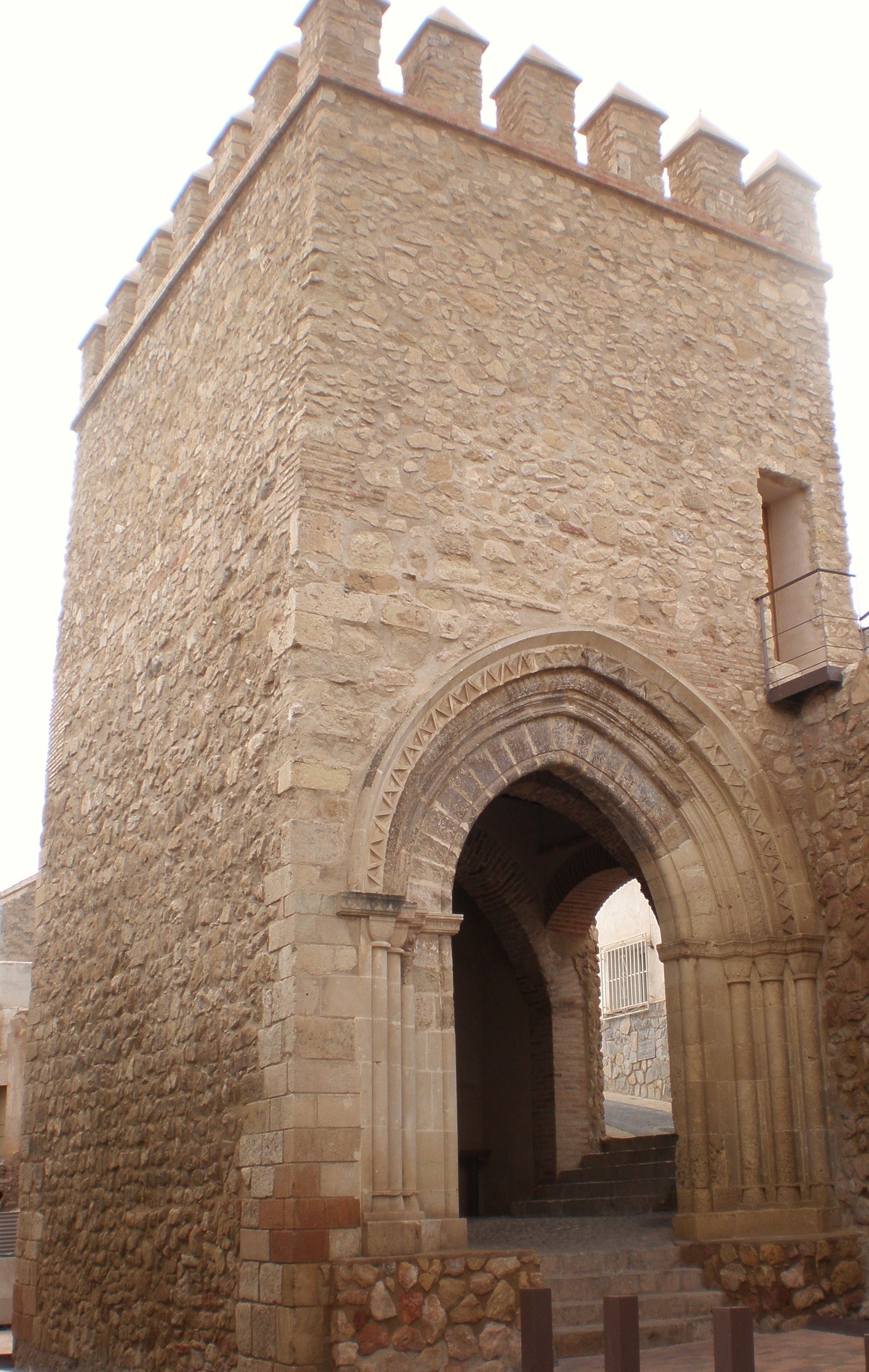 Porche de San Antonio, Lorca city